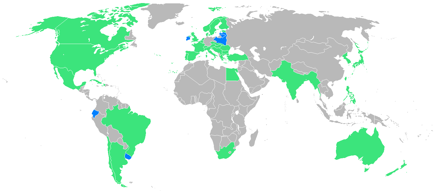 Countries which participated in the 1924 Summer Olympics, derived from blank world map and Image:1924 Summer Olympic games countries.png. Blue = Participating for the first time Green = Have previously participated. Yellow square is host city (Paris).